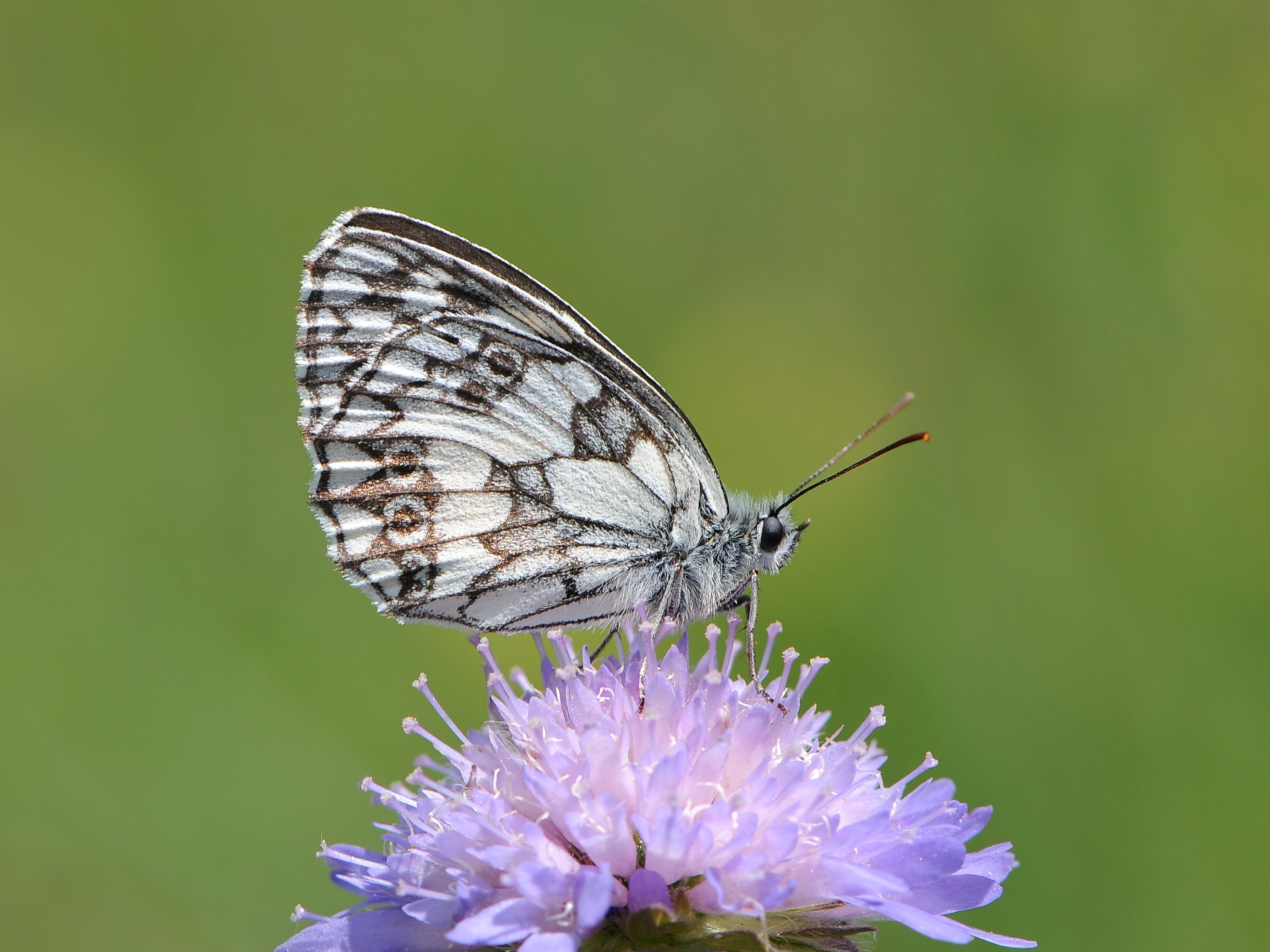 The Marbled White (Melanargia galathea) is a butterfly in the family Nymphalidae.